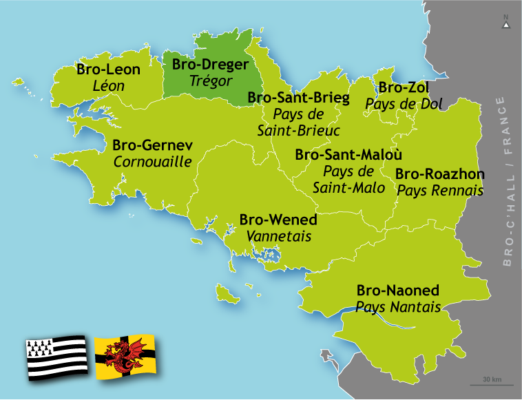 Position's map of Trégor (Brittany)